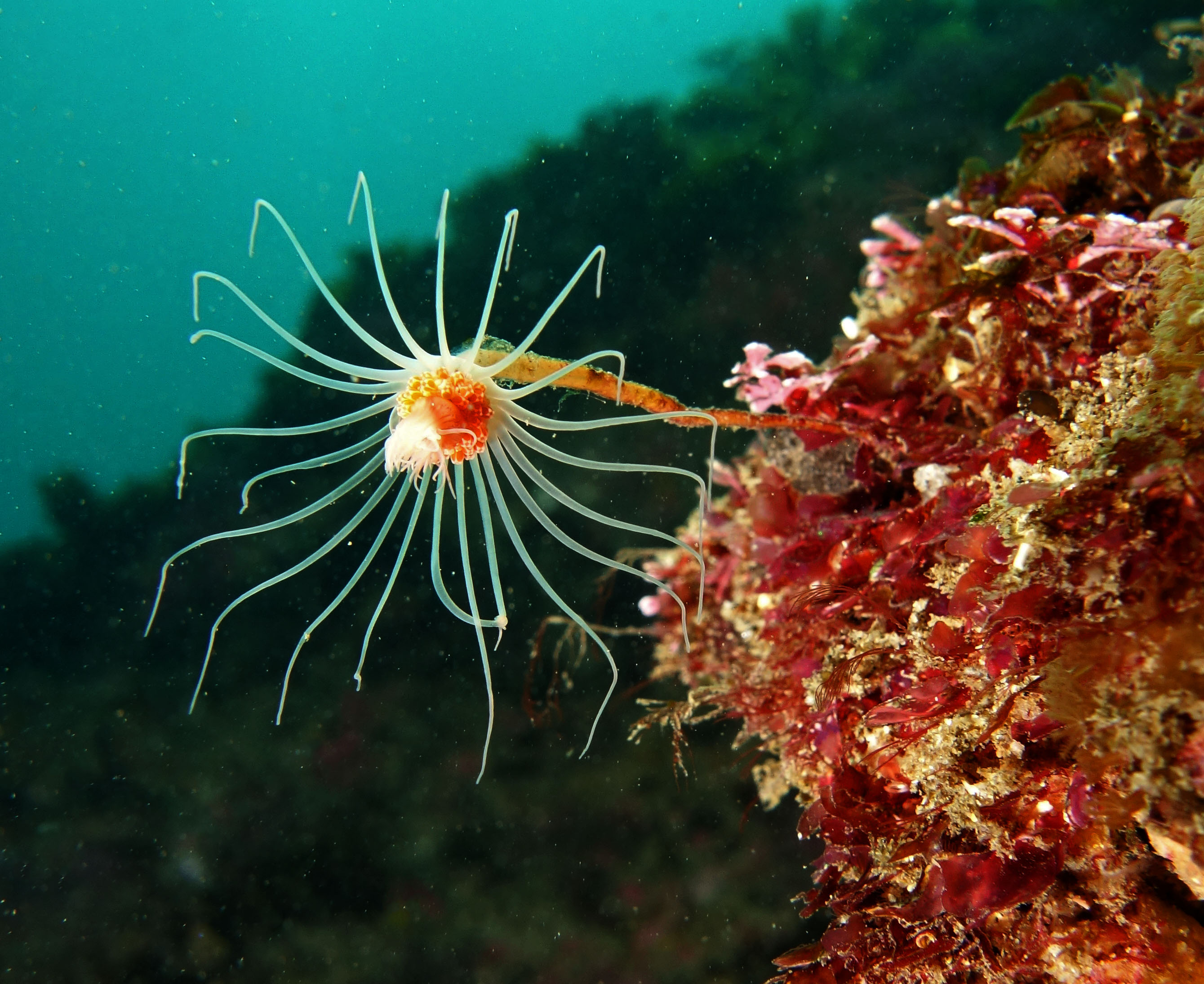 Ralpharia magnifica (Magnificent hydroid) Hydroids are predatory polyps related to jellyfish. Most are colonial but the magnificent hydroid occurs as single animals in small groups. Gordon's Bay